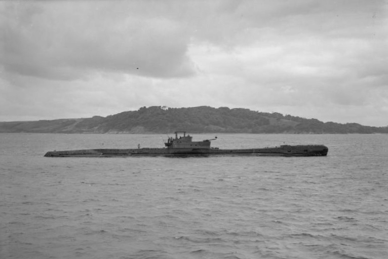 British T class submarine HMSM TIGRIS underway in Plymouth Sound.